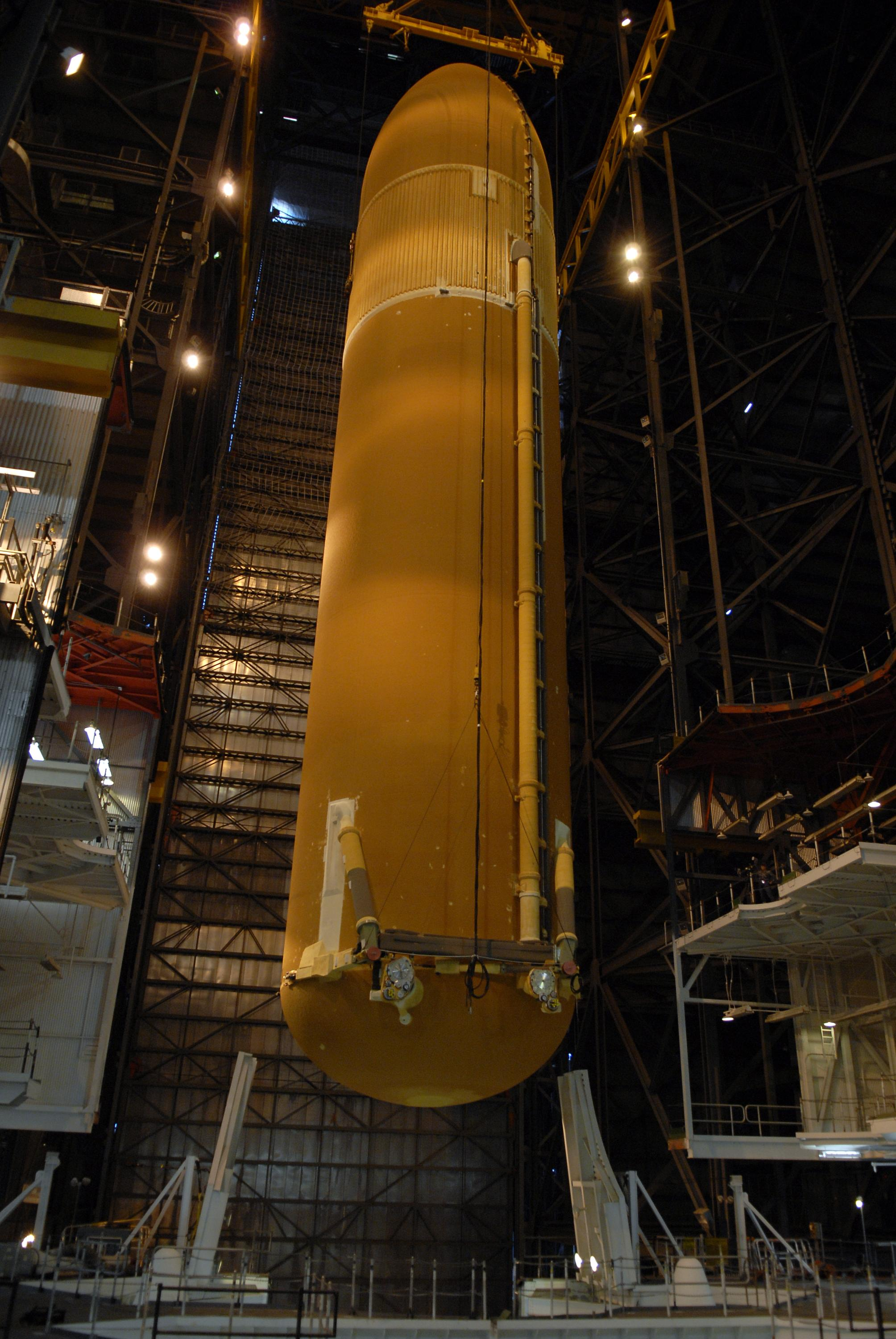 KENNEDY SPACE CENTER, FLA. -- External tank No. 124 is lowered into high bay 1 of the Vehicle Assembly Building where it will be mated with the solid rocket boosters for mission STS-117. The boosters are already in place on the mobile launcher platform in the VAB. The mission is targeted to launch on March 16 aboard Space Shuttle Atlantis.